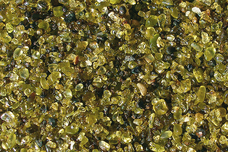 Hawaii, USA, Papakolea Green Sand Beach, handful of sand including many olivine crystals that are responsible for the greenish hue of the beach.